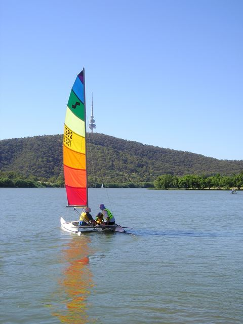 Catamaran on Lake Burley Griffin, Canberra, Australia. Black Mountain Tower in the background. Photo: D.M. Vernon, 2004